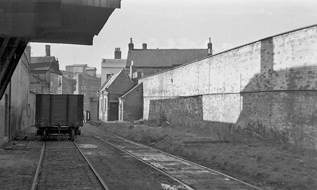 Tewkesbury Old Station View SW along Mill Branch towards High Street (level) crossing and Healing's Mill, showing remains of the original (1840) Tewkesbury Station. In those days, wagons to/from the Mill were worked across the High Street by a road tractor, with a flag-man stopping the road traffic.